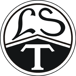 Historical logo of SV Teutonia Lippstadt, German football team